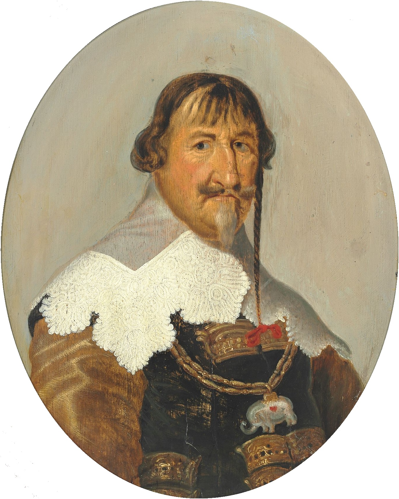 Portrait of King Christian IV with pigtail, white lace collar and the Order of the Elephant.